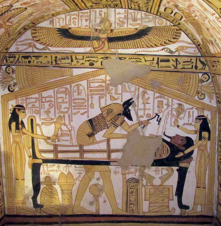 Anubis, Isis, Nephthys in the Theban Tomb 335 (Nakhtamun), from the reign of Ramesses II